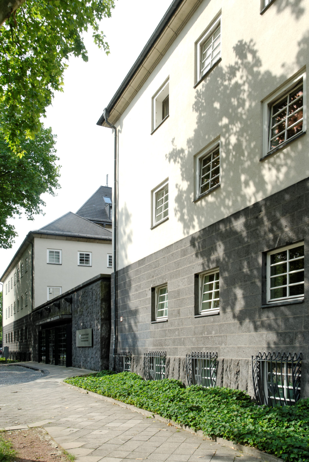 Phoenix-Haus, Fritz-Roeber-Straße 2 in Düsseldorf-Altstadt, Germany